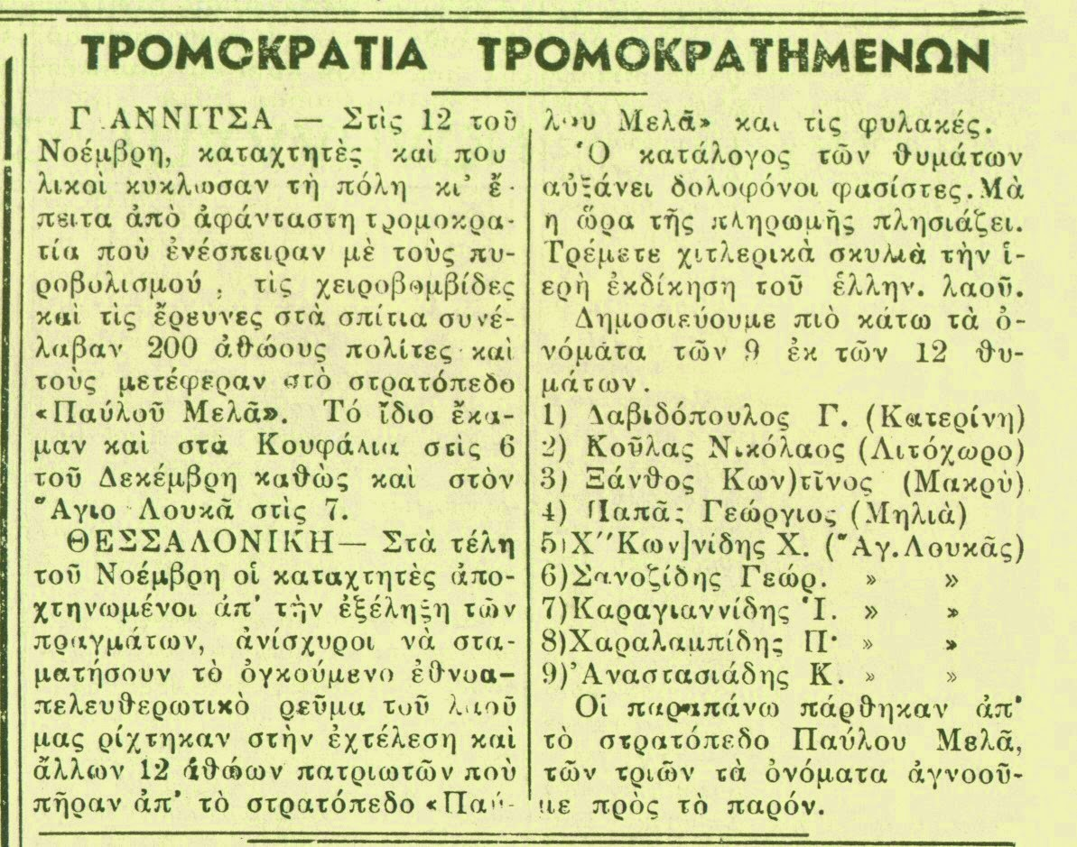 Greek underground newspaper “Eleftheria”, published in Nazi-occupied Macedonia, dated December 17,1943.